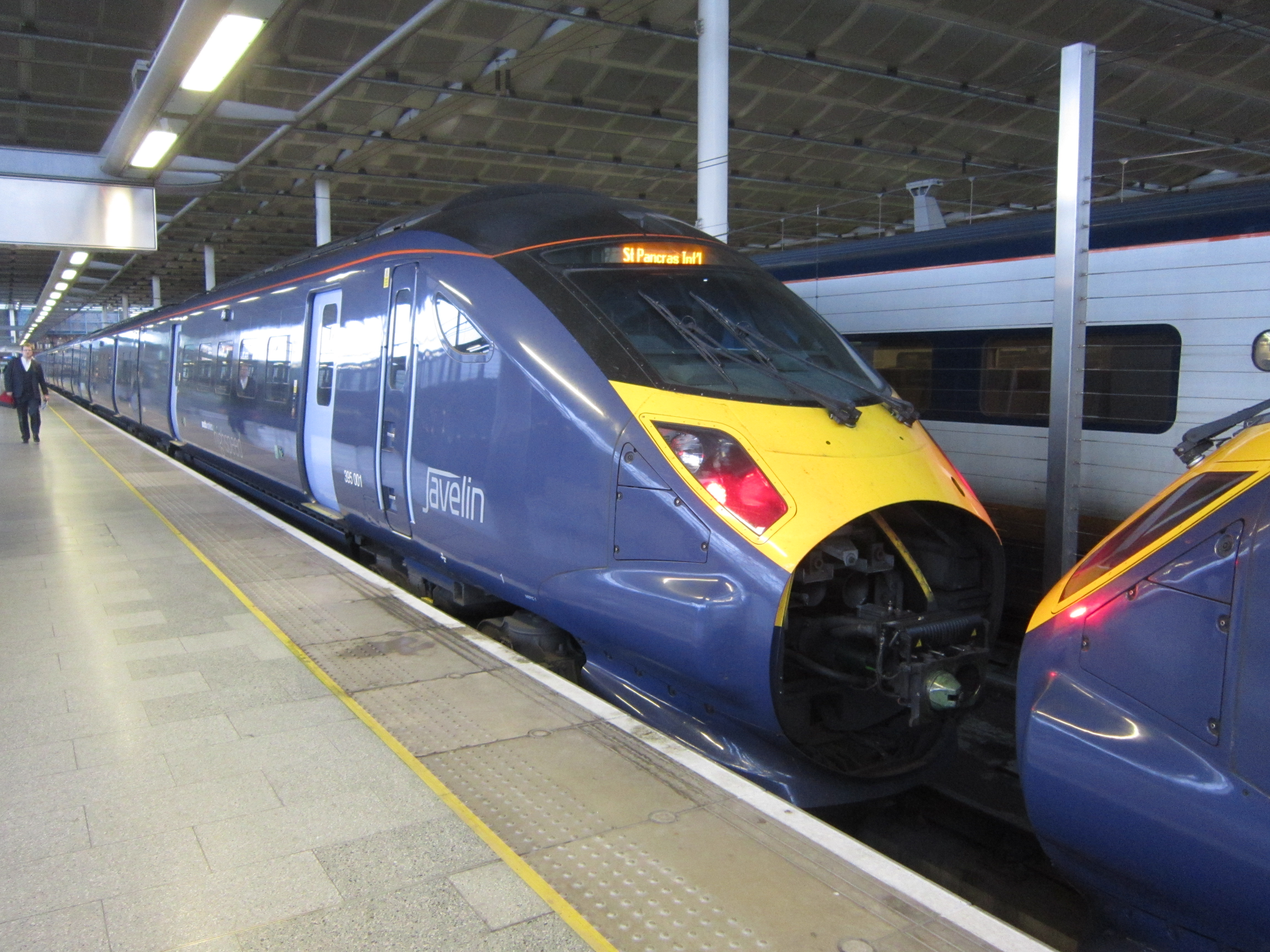 British Rail Class 395 no. 395001, Southeastern Highspeed service at St Pancras railway station, with the front cone retracted for coupling